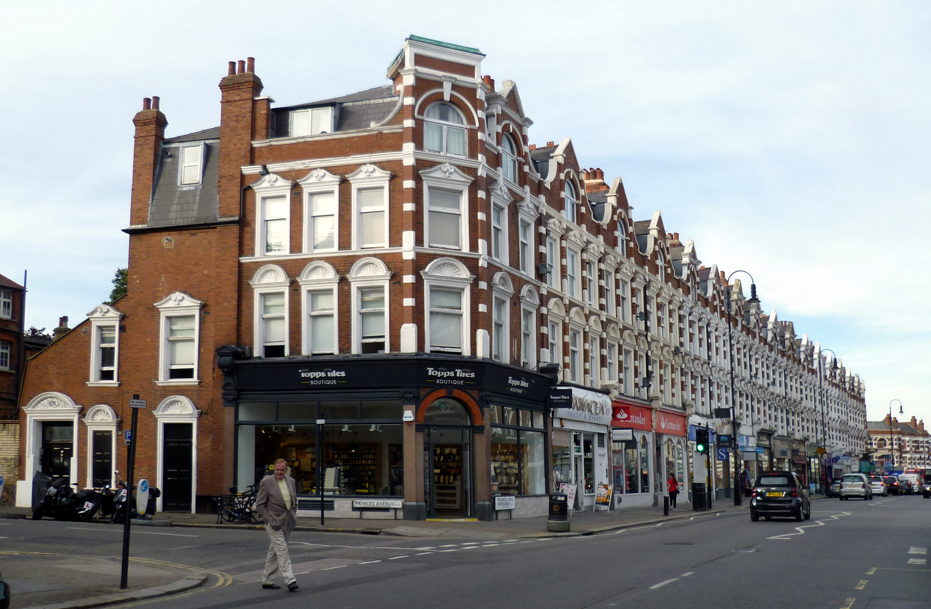 W. Martyn grocers shop is half way down.